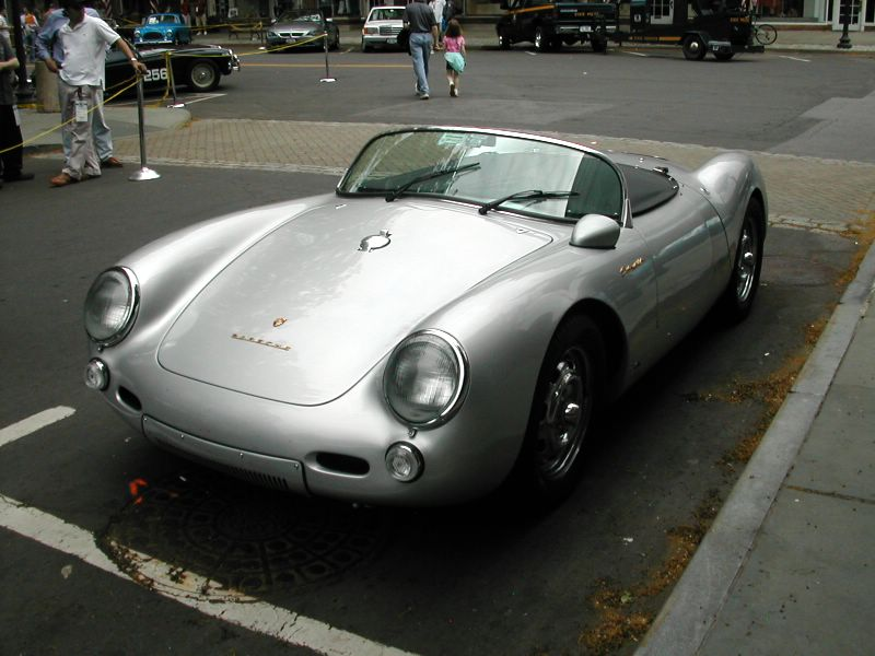 Porsche 550 Spyder Replica from the Scarsdale Concours.